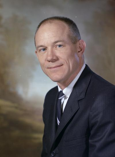 Senator Joel M. Pritchard, 1967